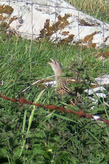 Corncrake at Totronald, Isle of Coll The elusive Corncrake caught having a good crake! The Isle of Coll RSPB Centre May, 2008.